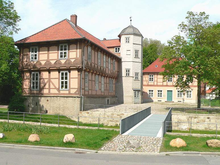 Fallersleben Castle, built 1520-1551. Lower Saxony, Germany